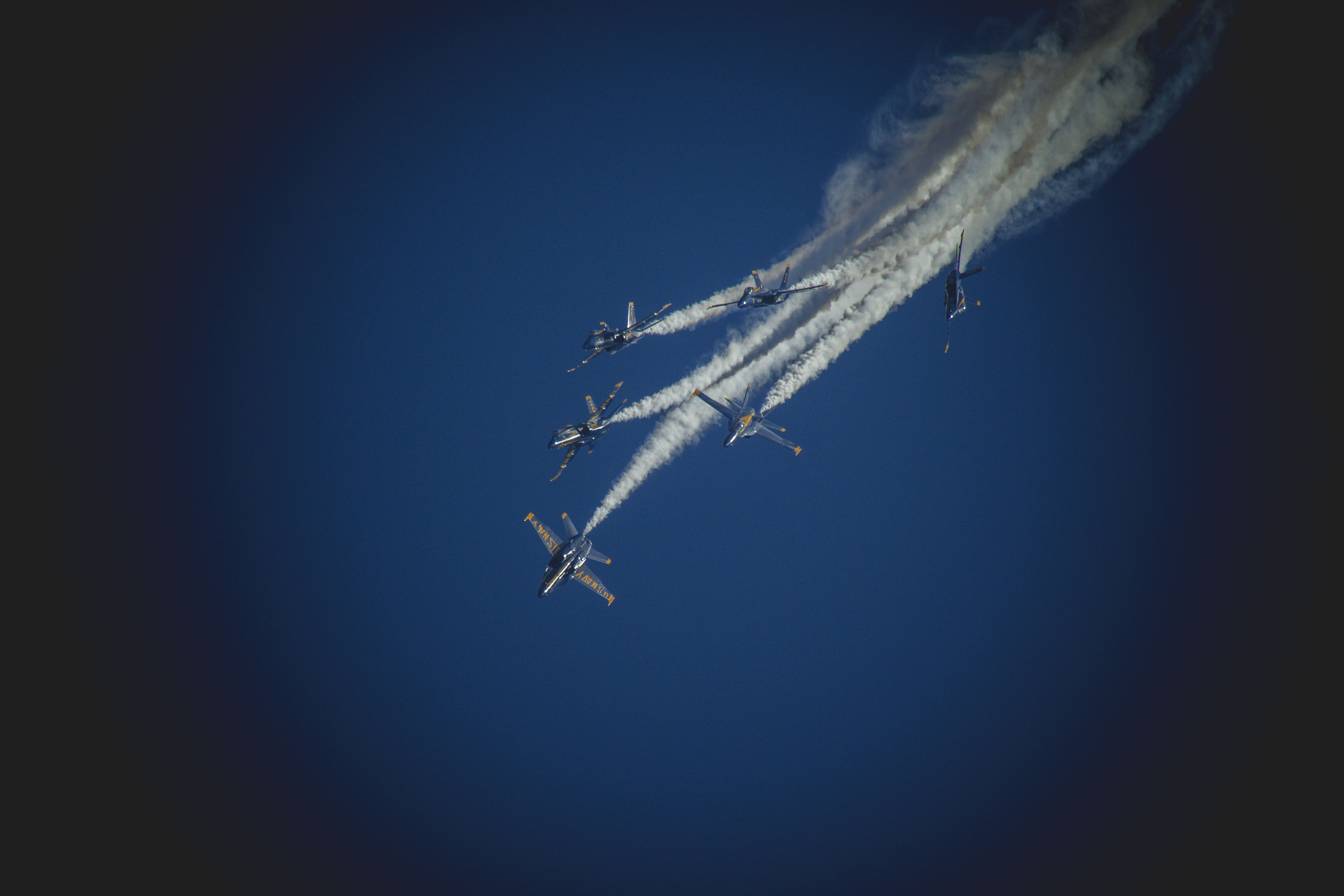 this is a picture i took and i want the world to see it